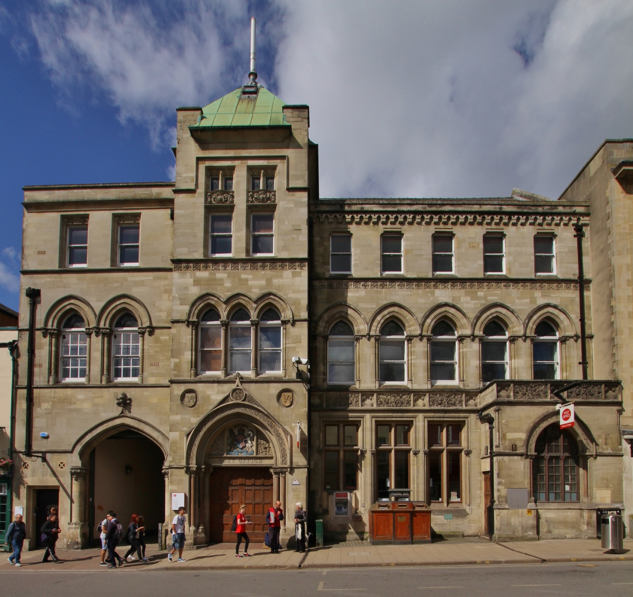 Oxford Post Office, 102–104 St Aldate's, Oxford OX1, seen from the east